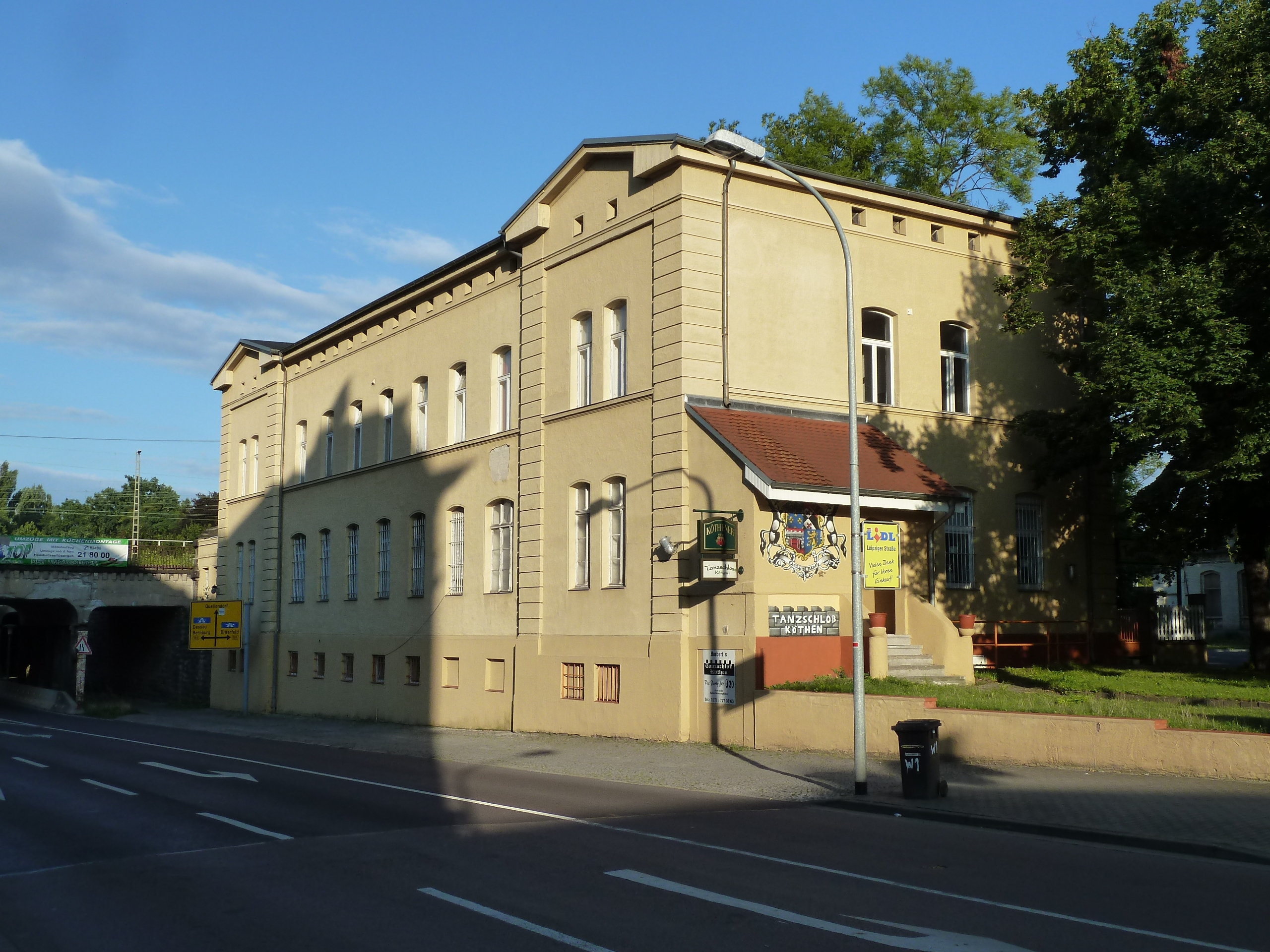 First railway station building in Köthen, 1840 by C.C. Hengst, today a discotheque.